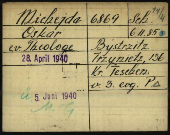 Registration card of Oskar Michejda as a prisoner at Dachau Nazi Concentration Camp.